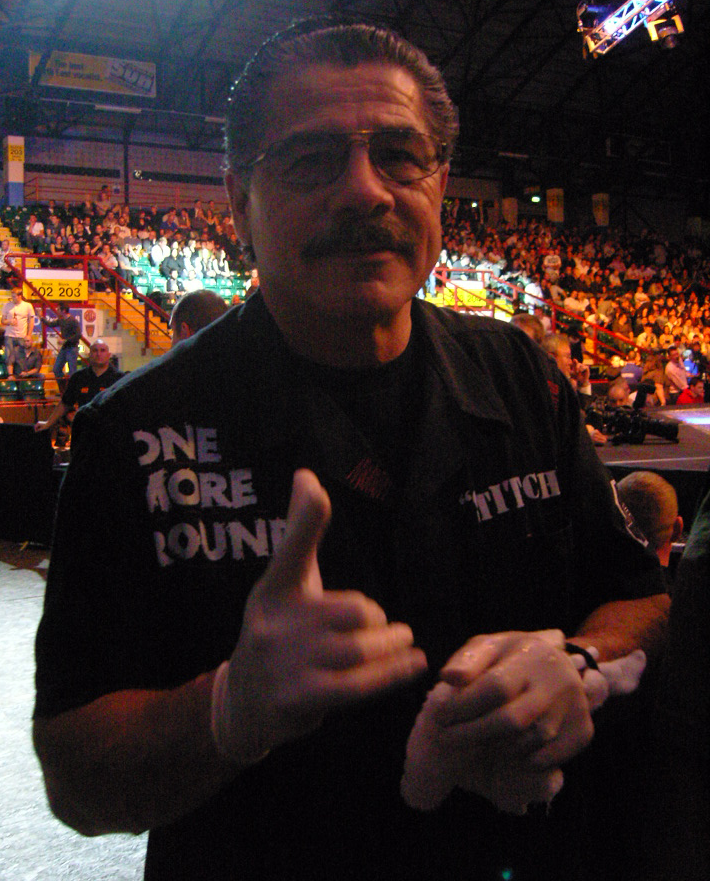 Source: Cropped from original image on Flickr.